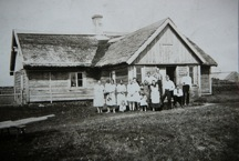 Photo of the All family farm on the island of Loonalaid, 1920's or early 1930's.